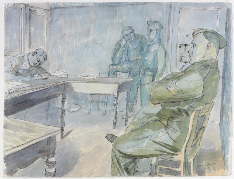 A Court-martial, Halluin image: an interior court martial scene with a Sergeant in profile wearing a forage cap and sitting with his arms folded in the right foreground, with another man next to him. On the left a military official sits writing at a desk. Two soldiers are standing in the centre background, one resting his leg on a chair.